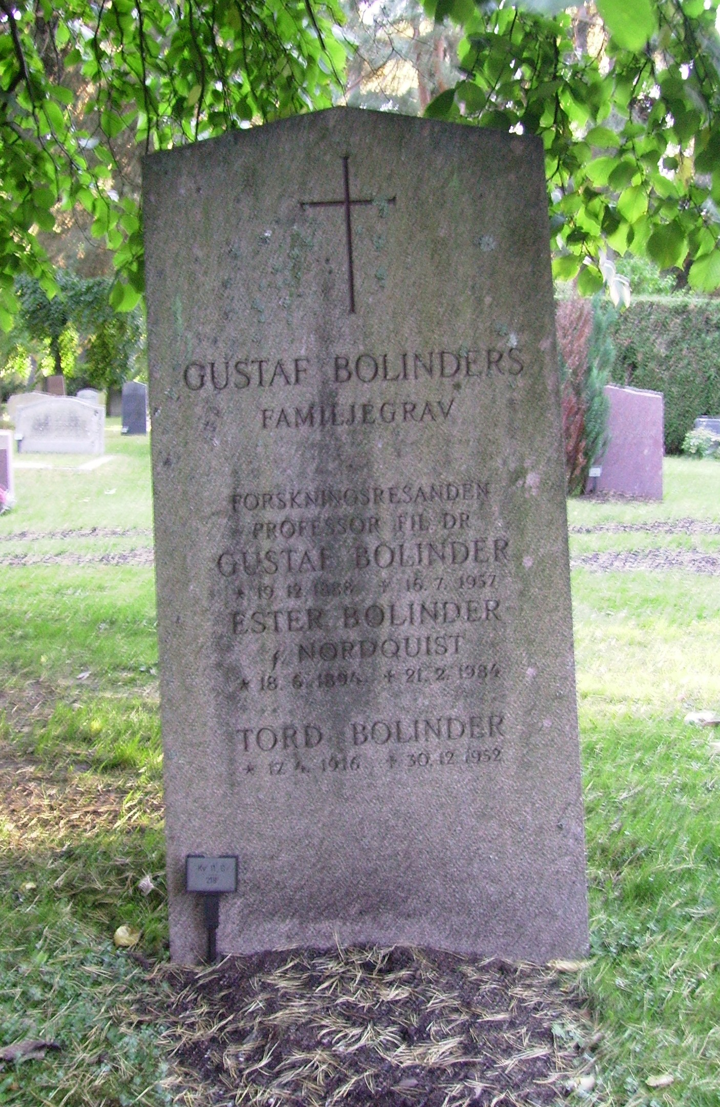 Picture of Gustaf Bolinder's grave at Norra begravningsplatsen in Solna